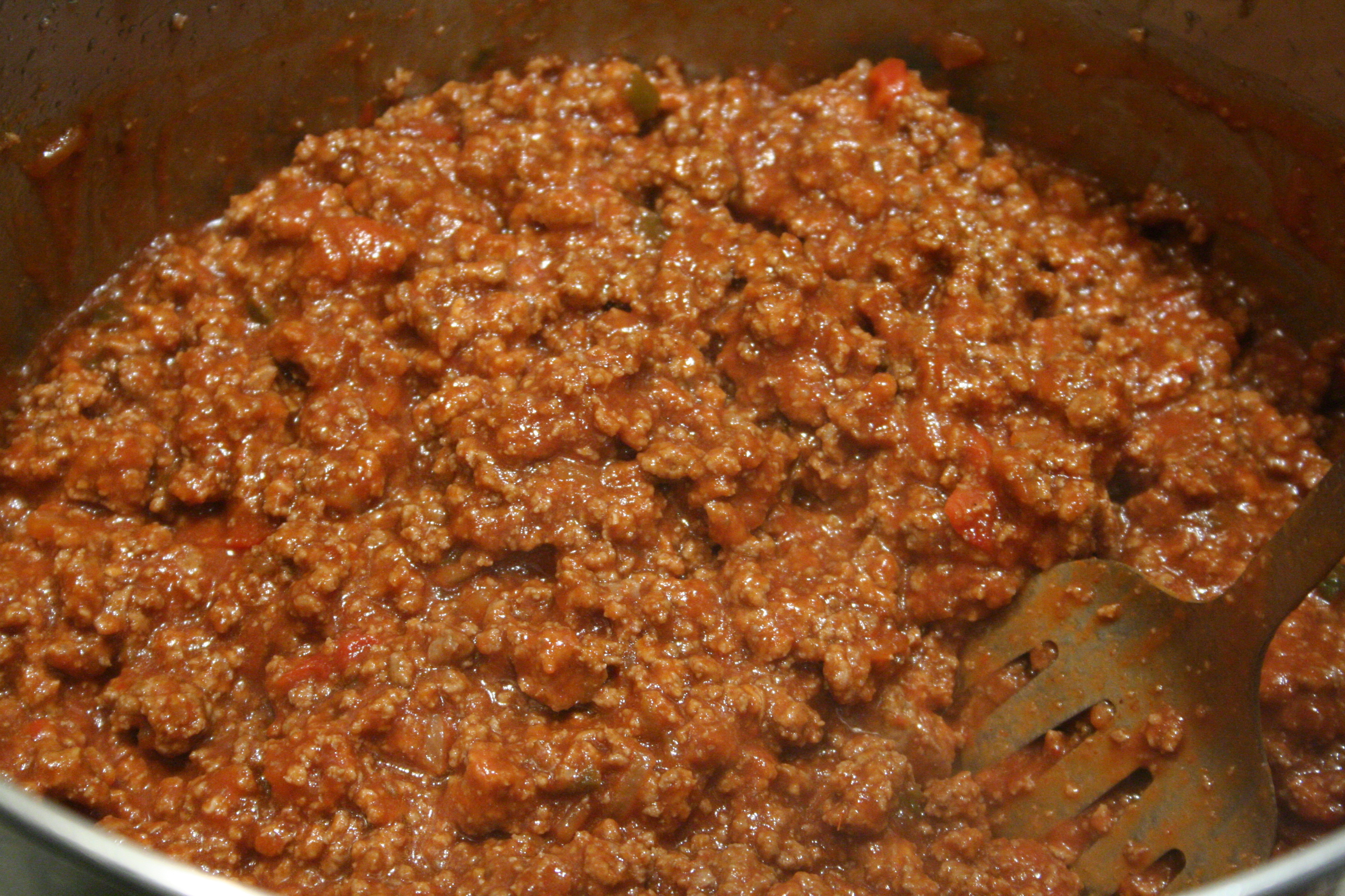 Sloppy joe meat in a pot. Taken in Phoenix, Arizona, United States, with a Canon EOS Digital Rebel XT digital camera.